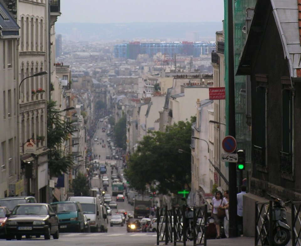 View of Paris and the Centre Georges-Pompidou from Ménilmontant street, XXth arrondissement.